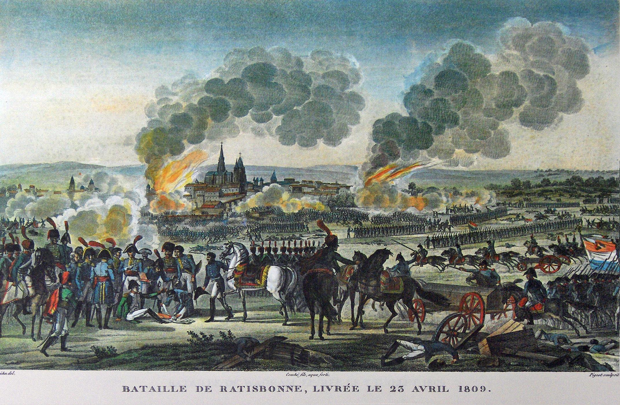 "Napoleon wounded at the Battle of Ratisbon" colored litho by Antoine Charles Horace Vernet (called Carle Vernet)(1758 - 1836) and Jacques François Swebach (1769-1823)